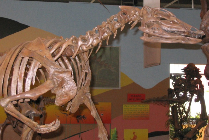 Thescelosaurus skeleton from the Rocky Mountain Dinosaur Resource Center, Woodland Park, Colorado.